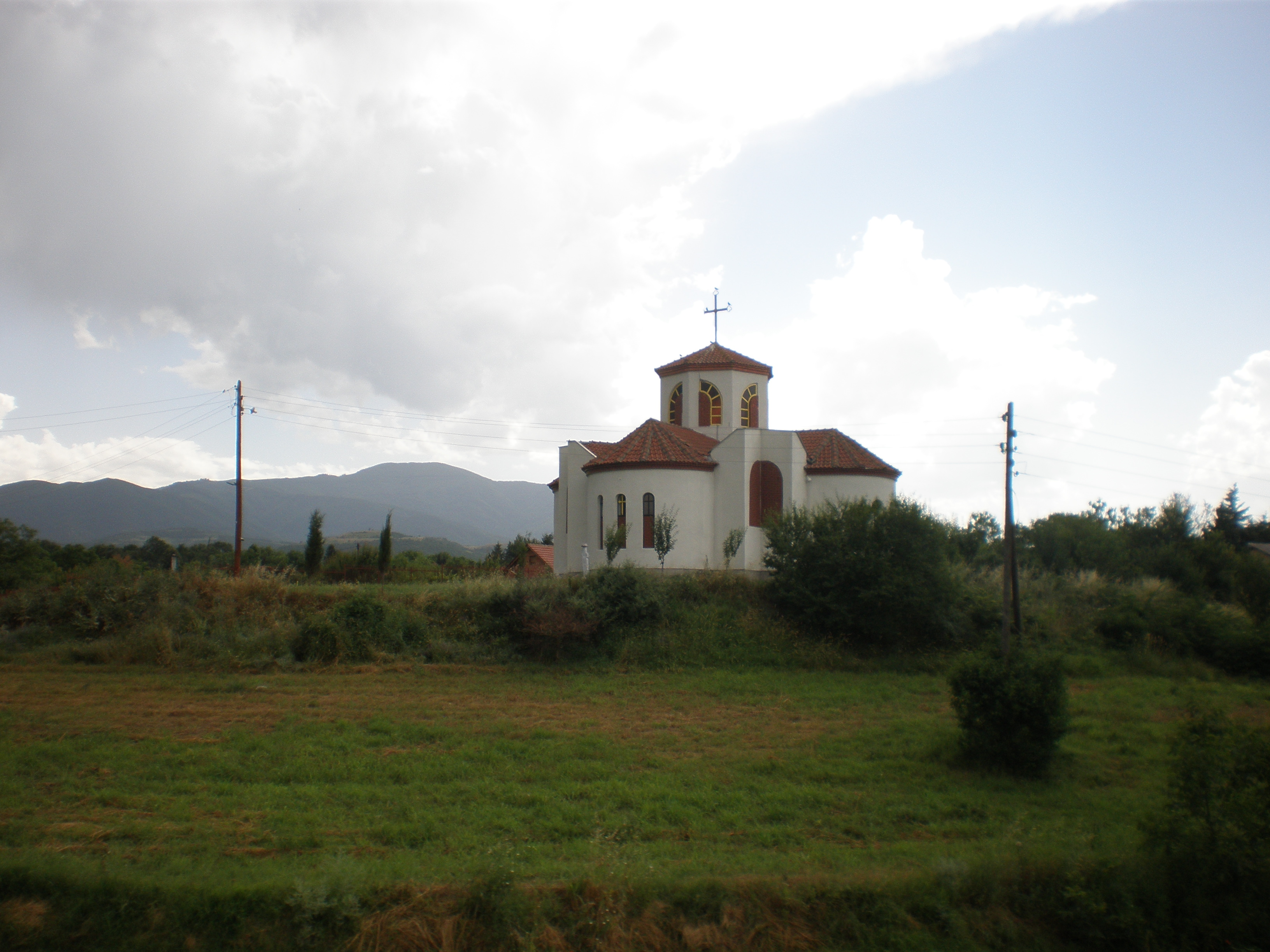 Church of St. Atanasij in the village of Oreshani (Skopje region), Macedonia